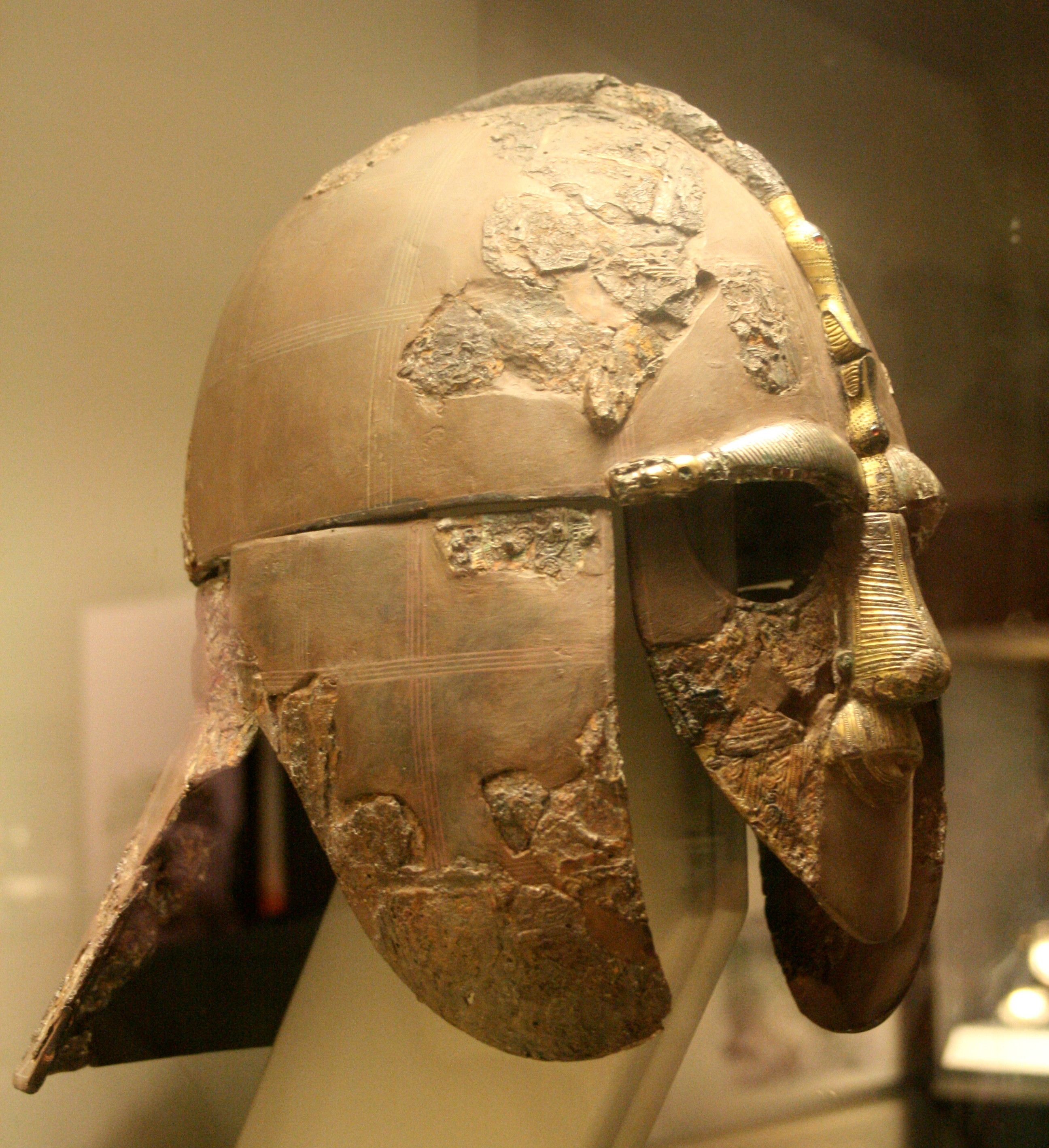 Helmet from the Sutton Hoo ship-burial 1, England. 7th century AD. British Museum.